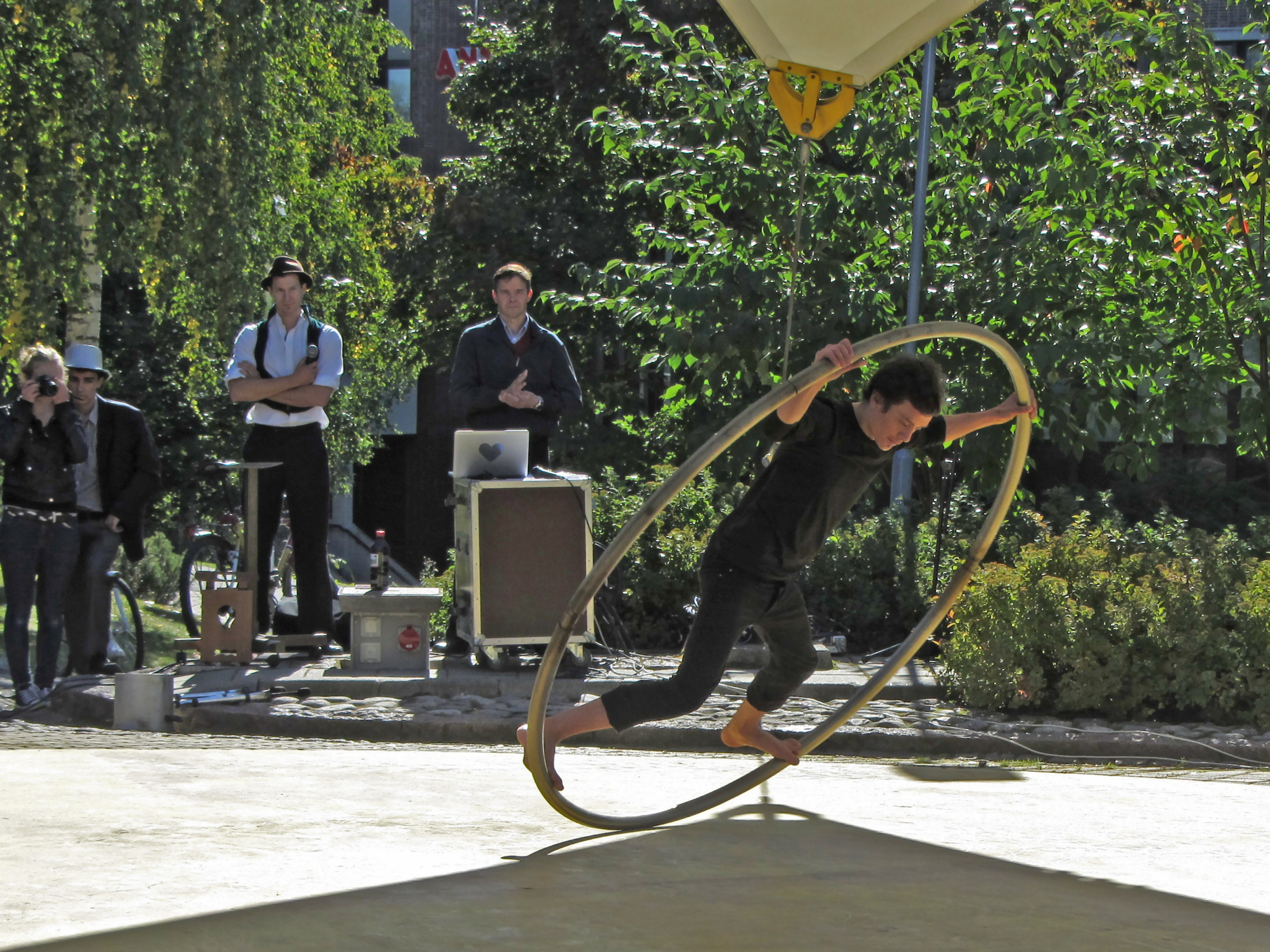 Rony Addadi with his Cyr Wheel was performing on Aurinkomäki stage during Circus Festival 2013 in Kerava.